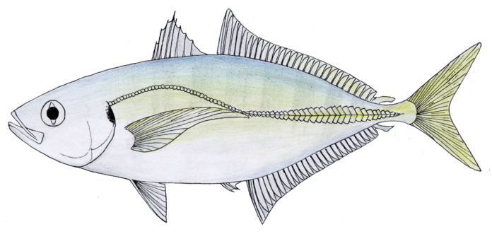 hand drawn and coloured diagram of Atule mate, yellowtail scad. Based on FAO catalogue and fishbase pictures.